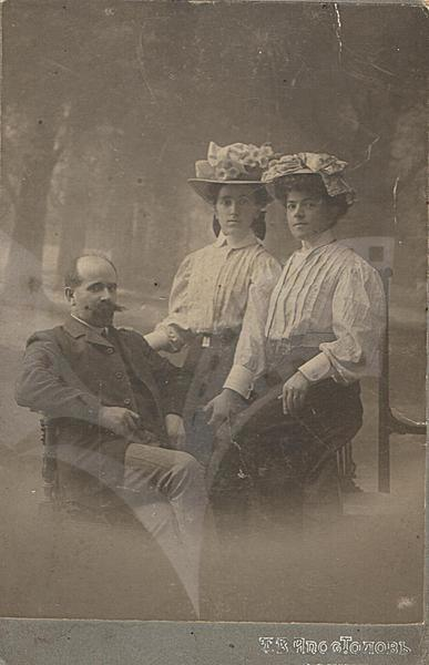 Traycho Dorevski and his sisters Maria and Ognena 1890-s